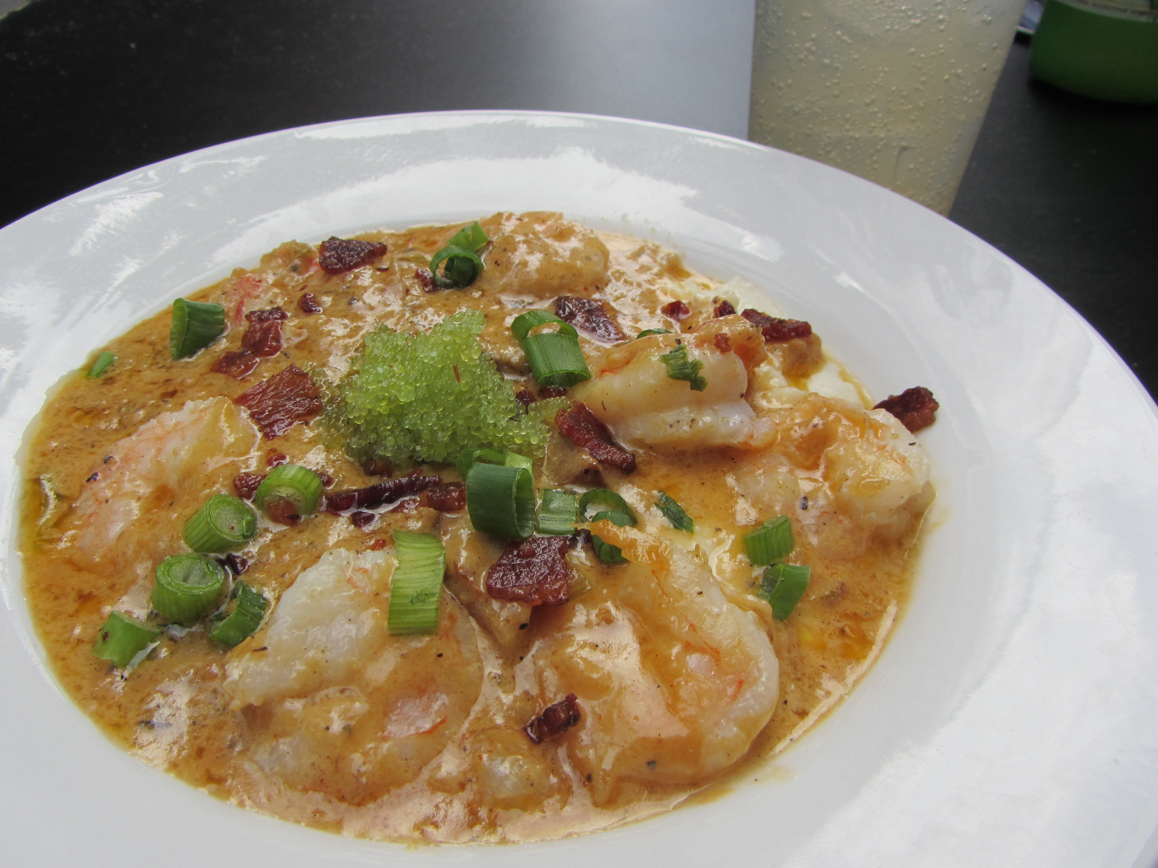 Shrimp and grits at the Green Goddess, New Orleans.